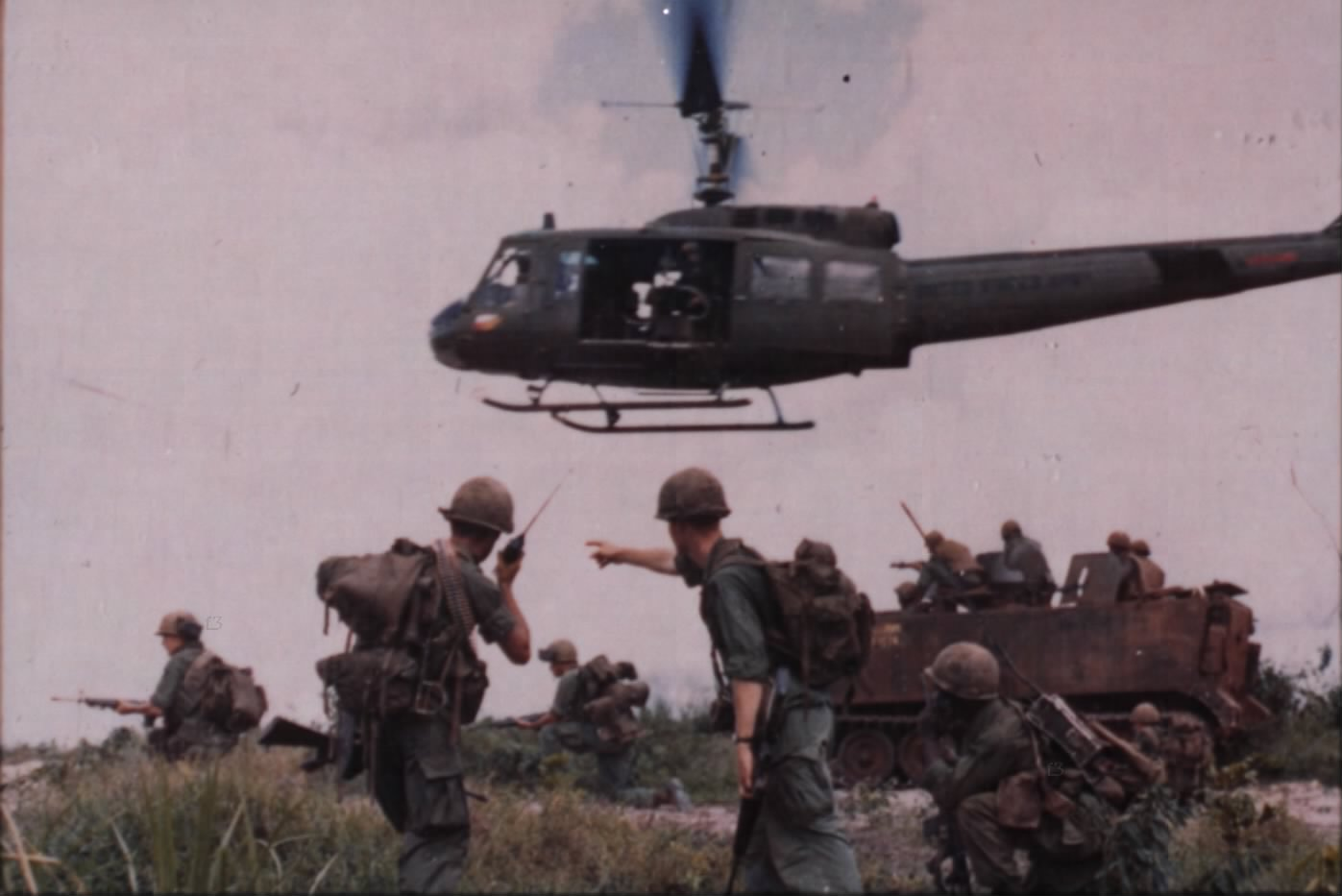 Long Binh Members of Company "D", 2nd Battalion, 3rd Infantry, 199th Light Infantry Brigade, prepare to move out behind the cover of an M-113 armored personnel carrier. A UH-1D helicopter passes overhead.